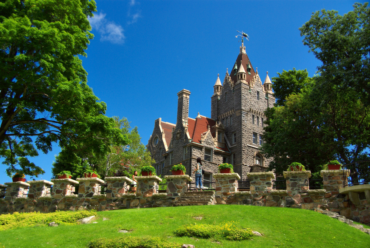 Boldt Castle in 1000 Islands area